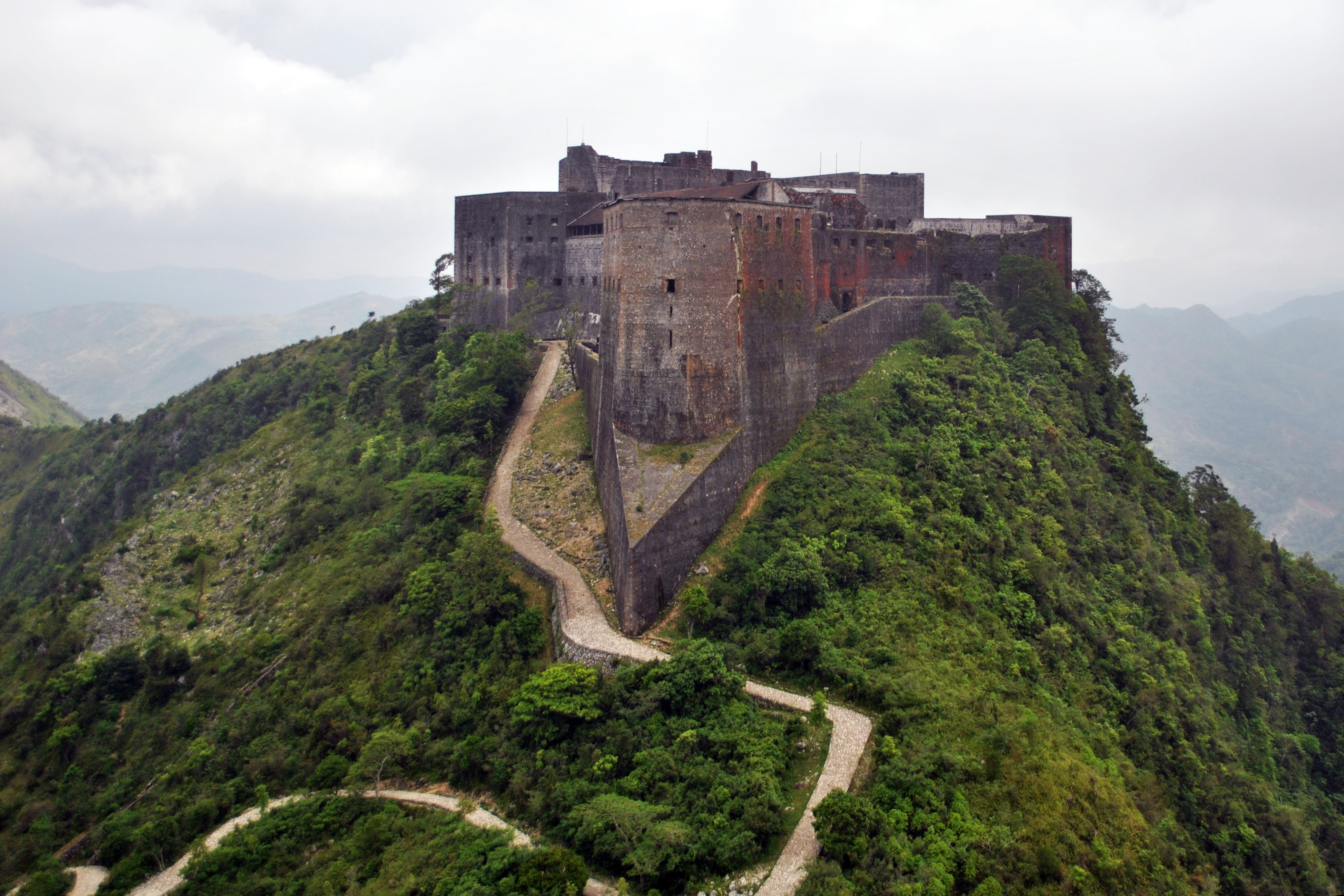 Citadelle Laferrière aerial view from an Army UH-60 Blackhawk during operation Unified Response.